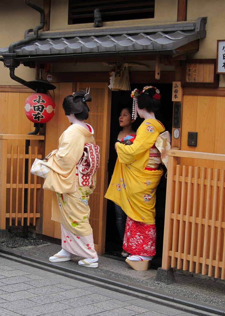 Geiko and Maiko, Fumikazu and Momokazu, at Gion in Kyoto, Japan; Geisha wears peach irotomesode, maiko wears yellow furisode and shikomi wears jeans and a black t-shirt. Kyoto, Odamoto okiya. 芸者と舞妓、章佳司と百佳司、祇園、京都。芸者は桃色の色留袖を着て、舞妓は黄色い振袖を着て、仕込みはジーンズと黒いTシャツ着る。京都、小田本置屋。 Гейша, майко и сикоми в Киото. Гейша одета в персиковое кимоно «томэсодэ», майко — в жёлтое «фурисодэ», сикоми — в джинсы и чёрную майку. Киото, окия «Одамото»